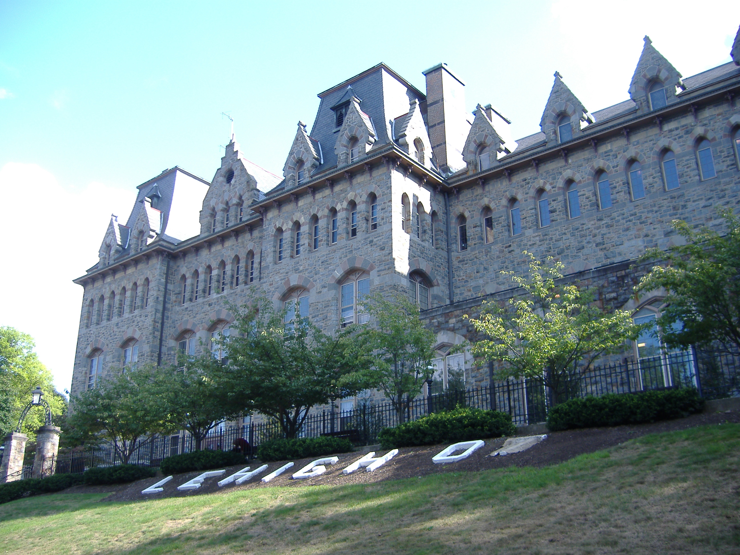 Packer Hall at LEhigh University